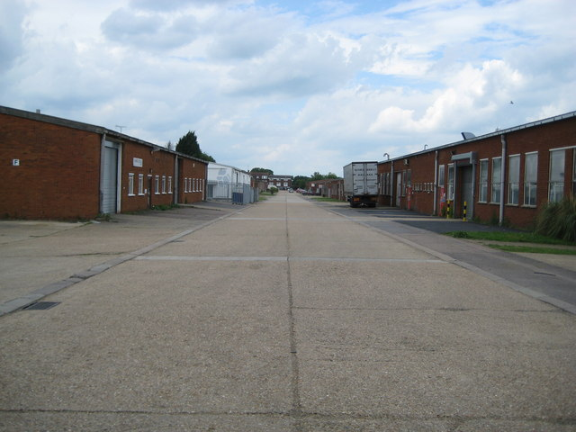 Deserted on a Sunday afternoon, this view was taken from the southern end of the estate looking towards the B659 Hitchin Road. Up until the 1960s this was the site of Henlow Camp railway station and its sidings, with the route of the Bedford to Hitchin Line running behind the industrial units to the right. .